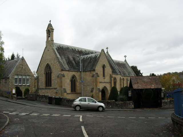 St. John the Evangelist Church in Jedburgh